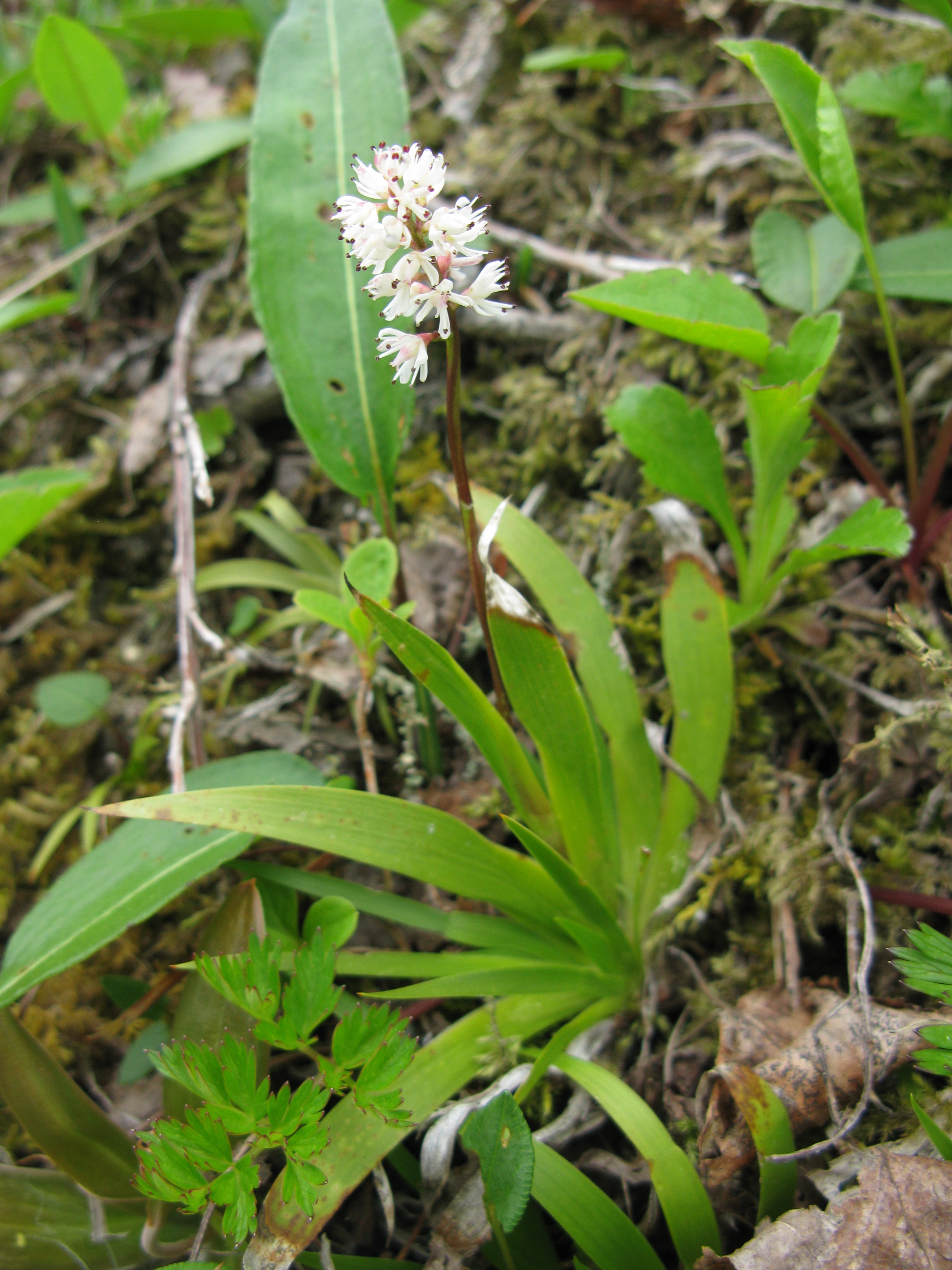 Tofieldia coccinea,Mount Iide, Fukushima pref., Japan